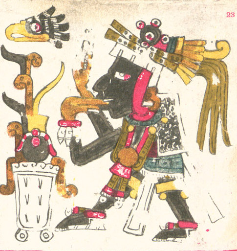 A drawing of Ixtlilton, one of the deities described in the Codex Borgia